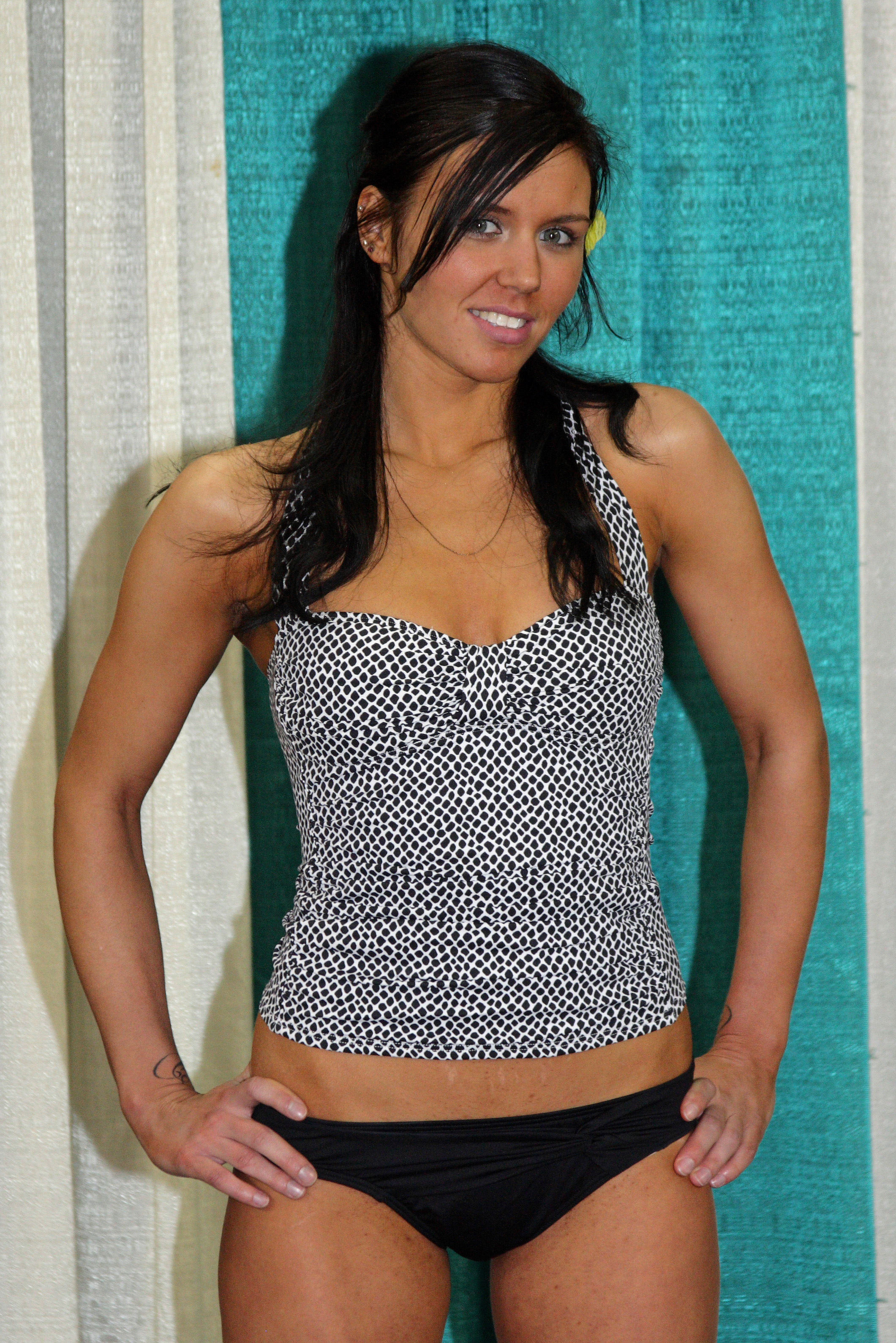 Run to the Sun is an Anchorage business for woman's clothing and also tanning: Woman with Tankini.